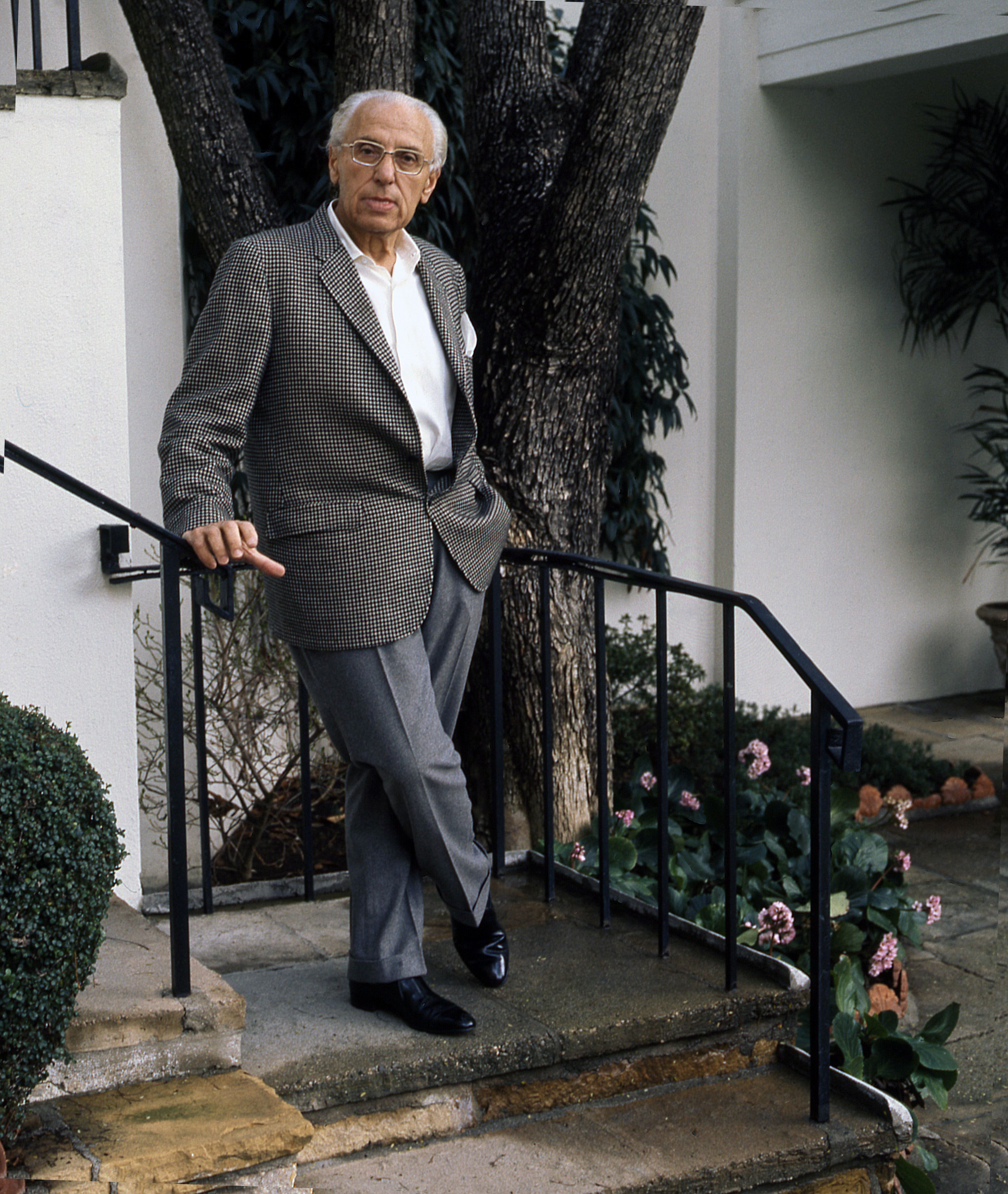 George Cukor in his garden in Hollywood.